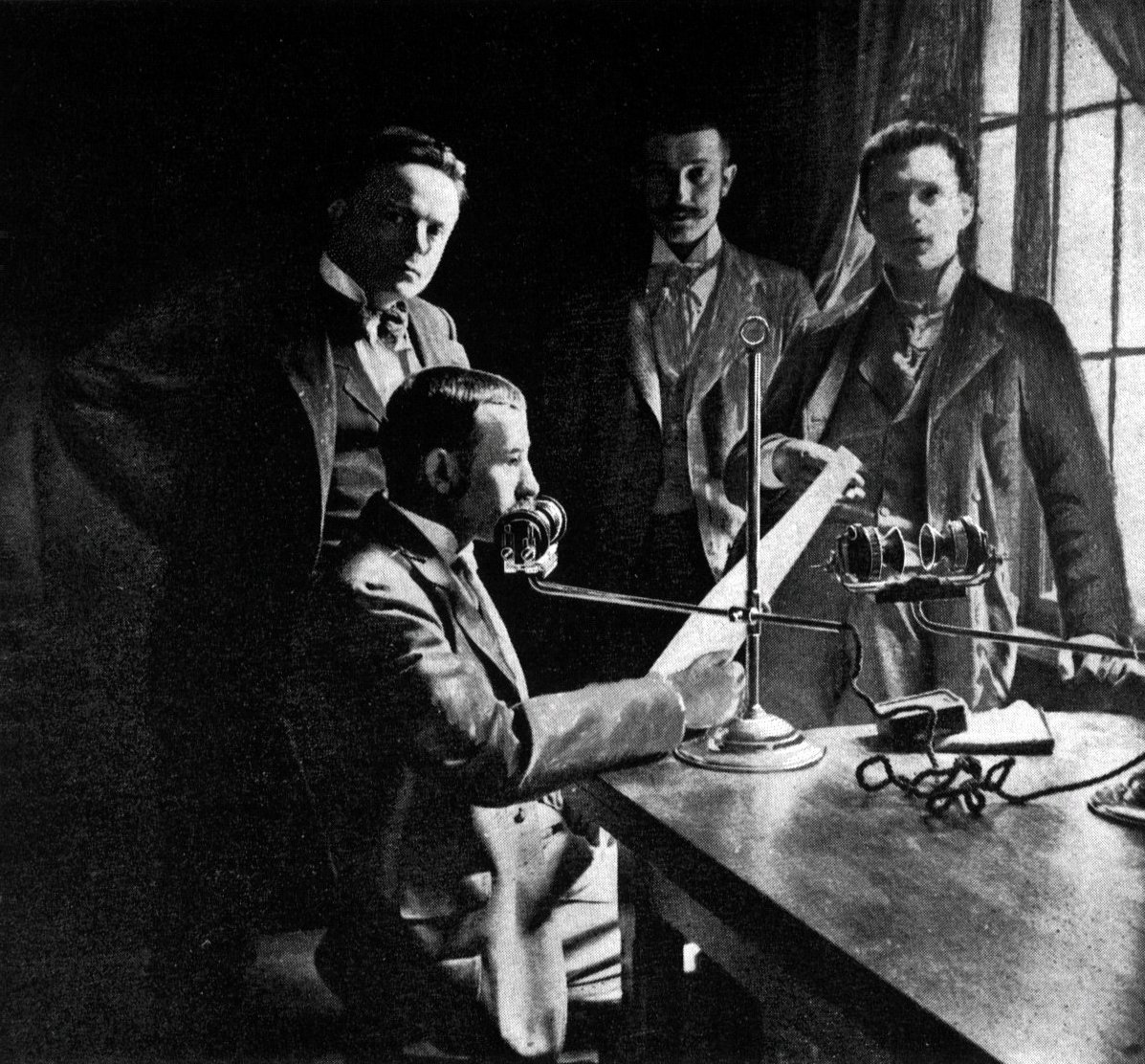 A stentor reading the day's news to 6200 subscribers - An image depicting the stentor of Telefon Hirmondó